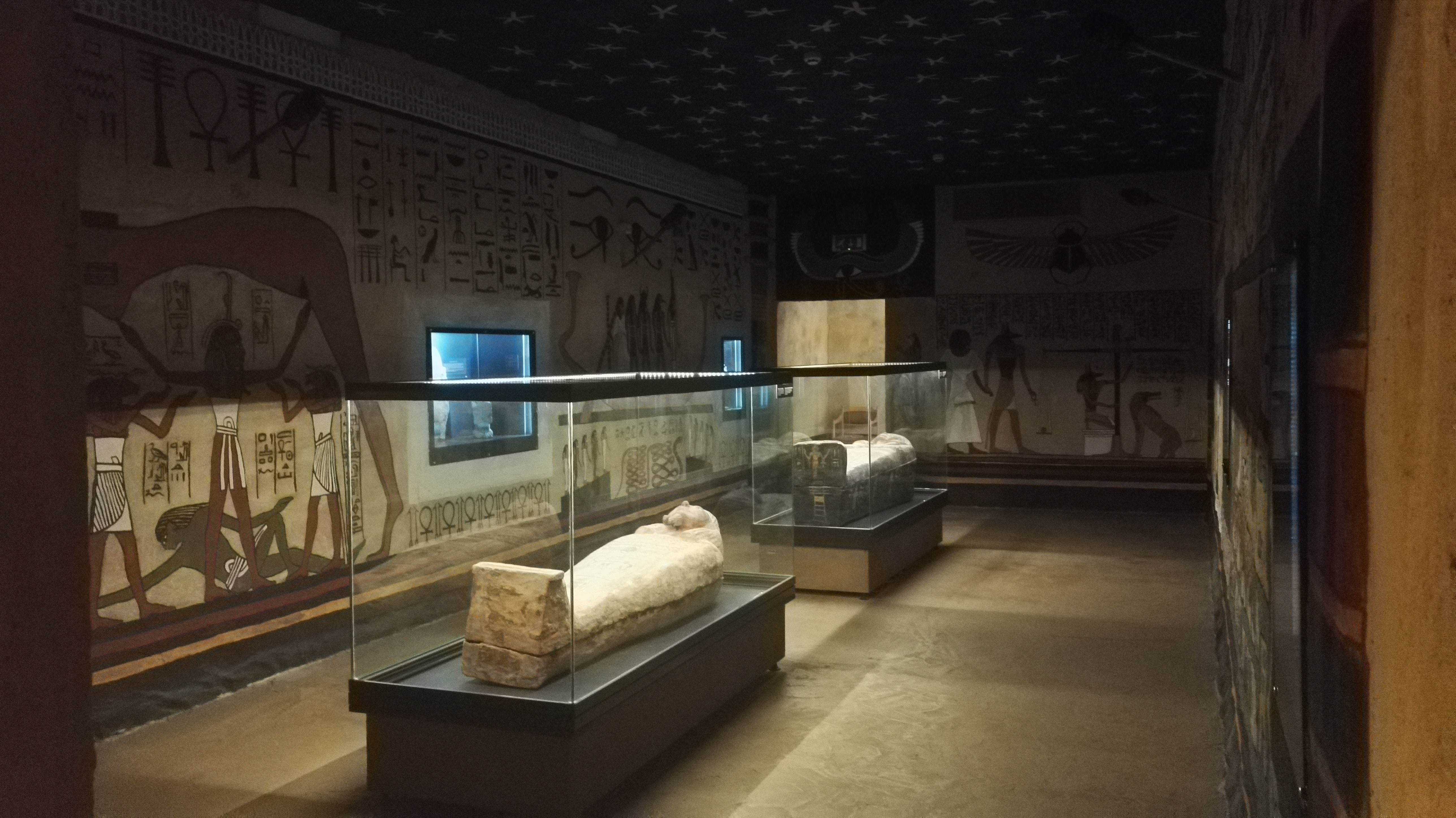 Egyptian collection of Déri Museum, Debrecen, Hungary.